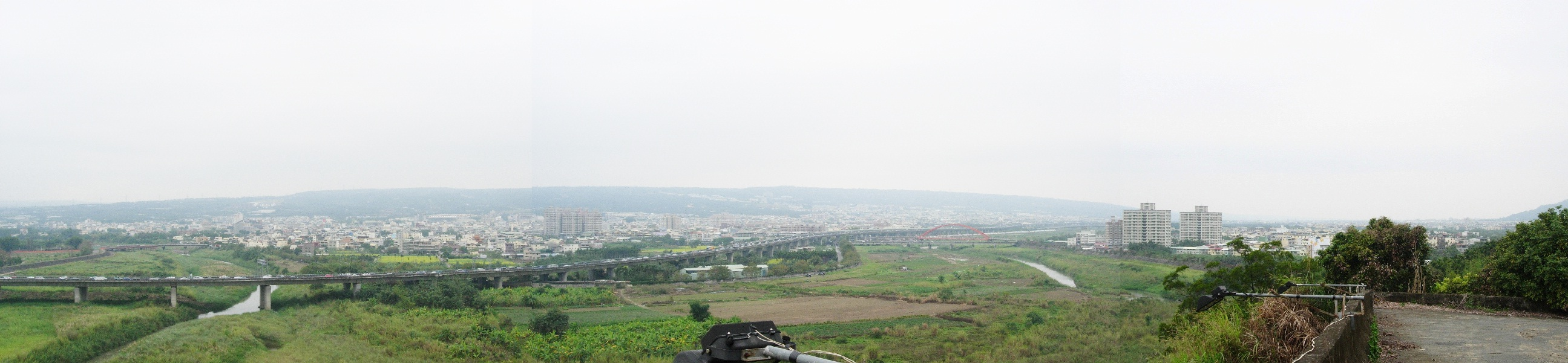 Nantou City Downtown On Baowe Mountain